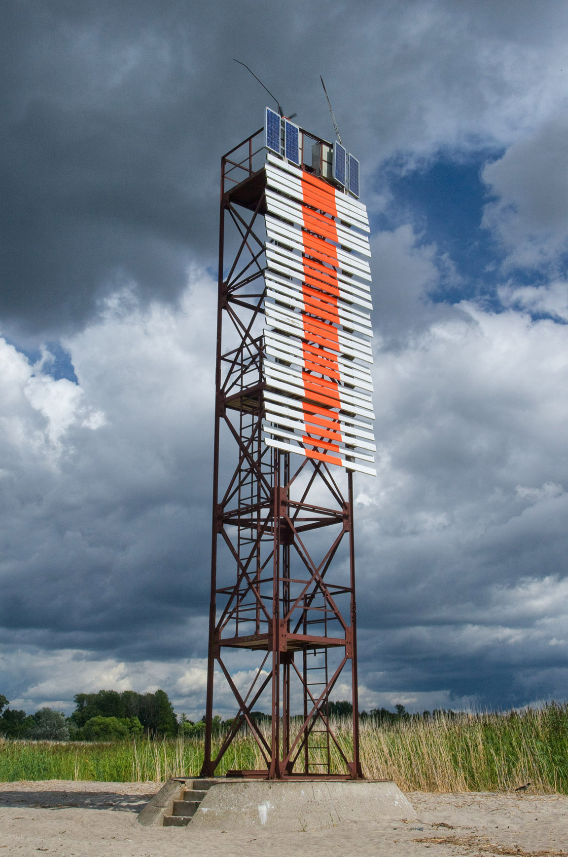 Seedri front light beacon